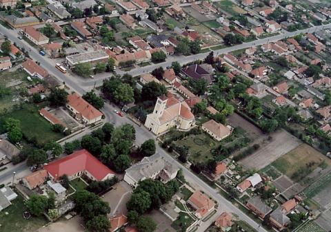 Törtel, Hungary, aerialphotography